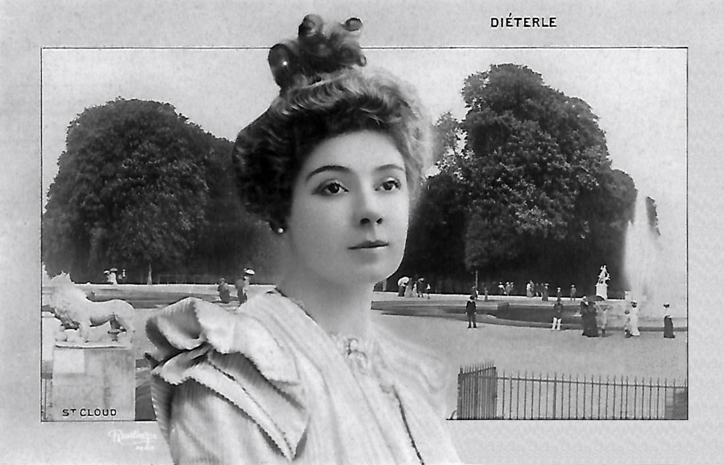 Amélie Diéterle is a French actress born in Strasbourg on February 20, 1871 and died in Cannes on January 20, 1941. She was legitimated in Paris in 1892 by Captain Louis Laurent, Knight of the Legion of Honor. Amélie Diéterle married in Vallauris on June 16th, 1930 with André Simon (1877-1965). Amélie Diéterle plays mainly at the Théâtre des Variétés in Paris during the Belle Époque.